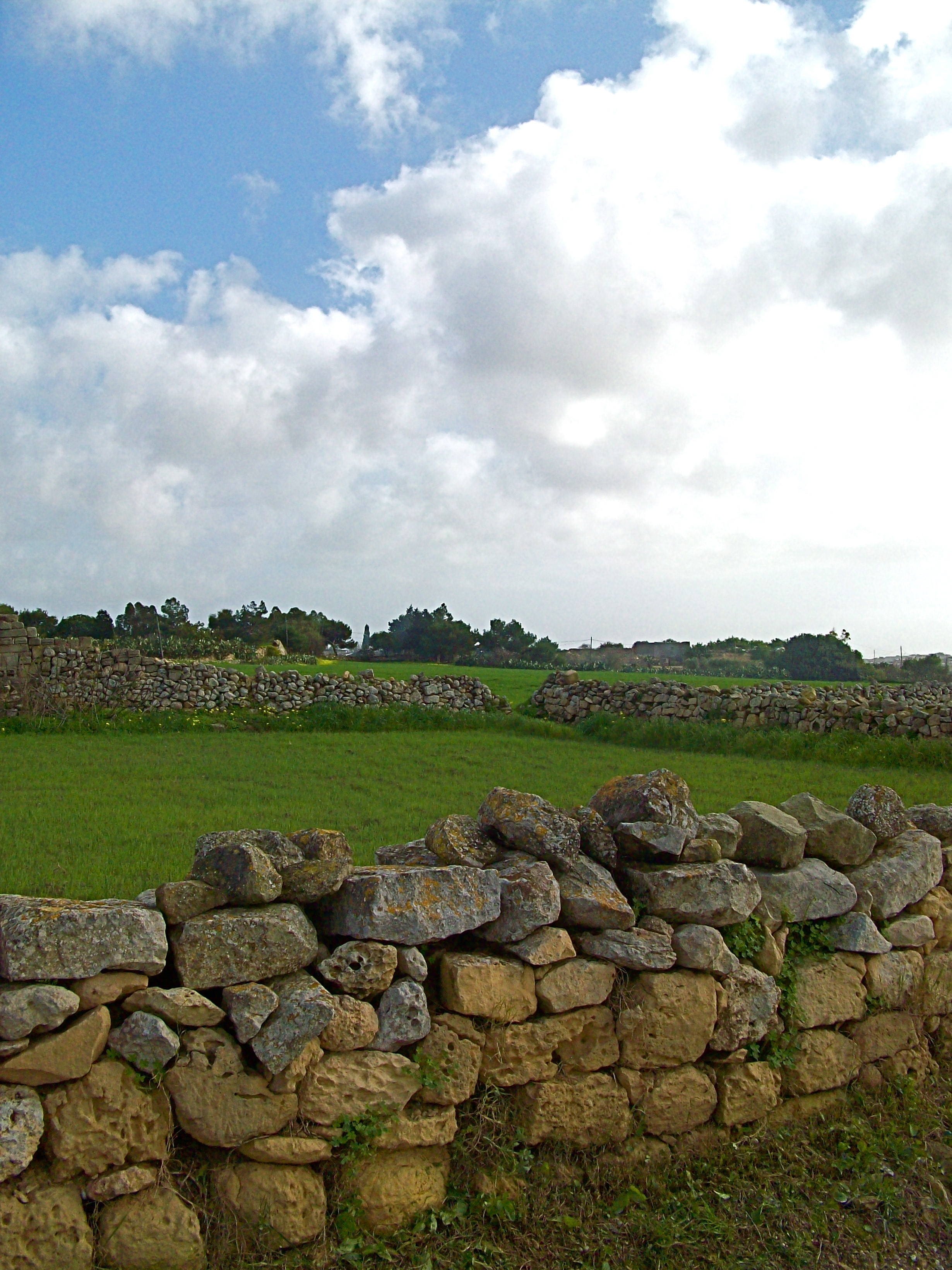 Wied il-hlas ("Valley of Birthing") in Attard, on the island of Malta